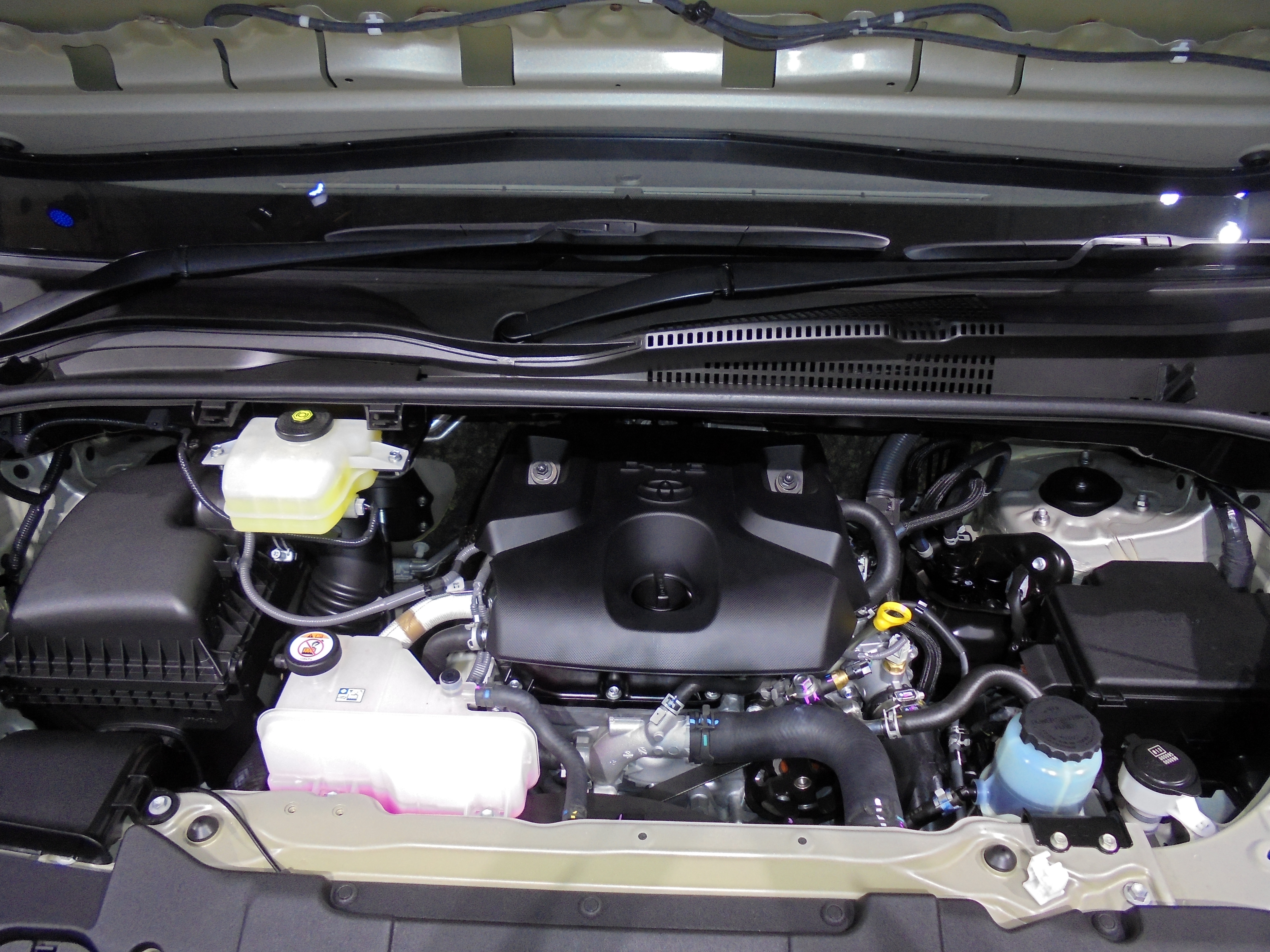 2019 Toyota HiAce Premio 2.8 1GD-FTV engine (GDH322R)